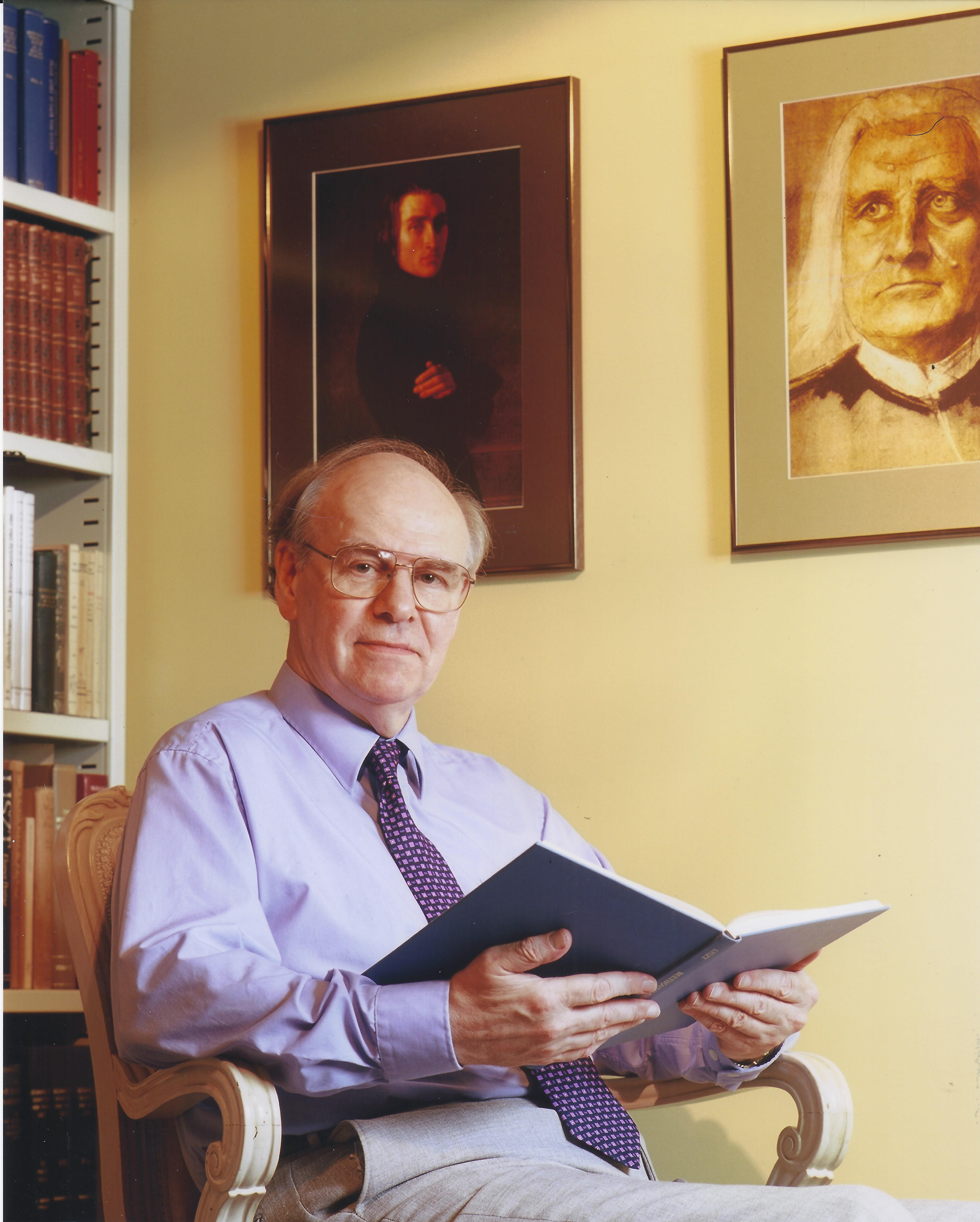 Alan Walker